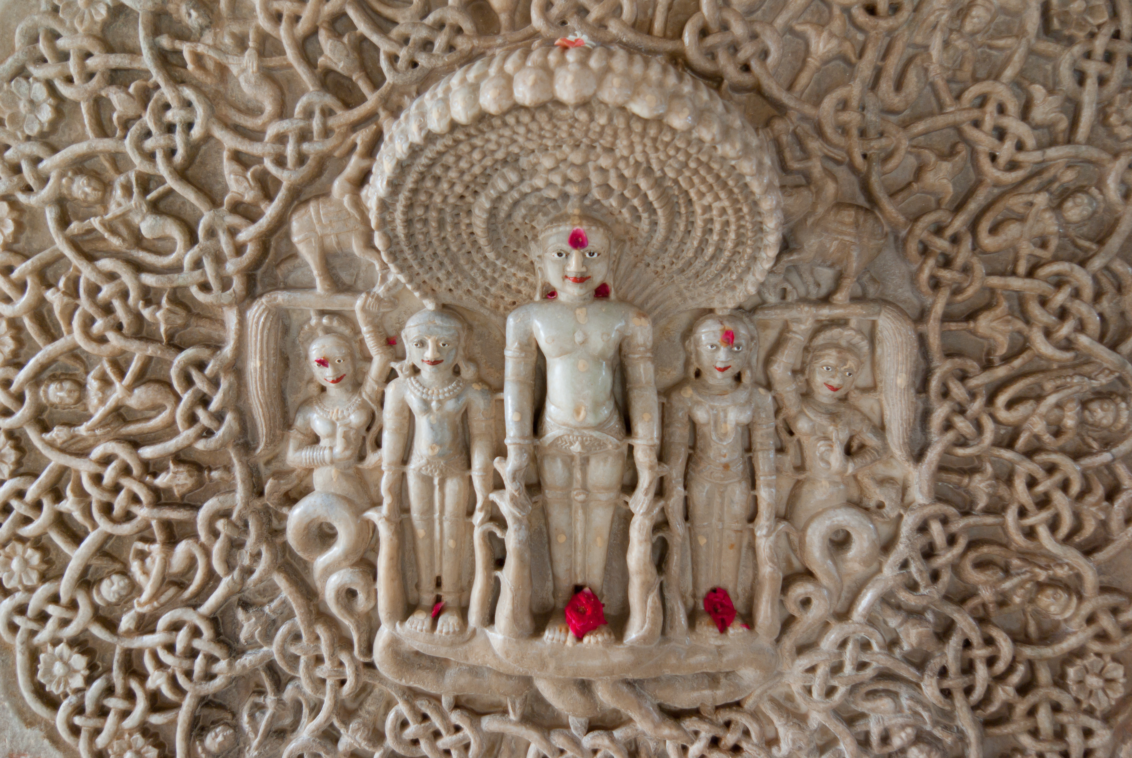 Interior of Ranakpur Jain Temple